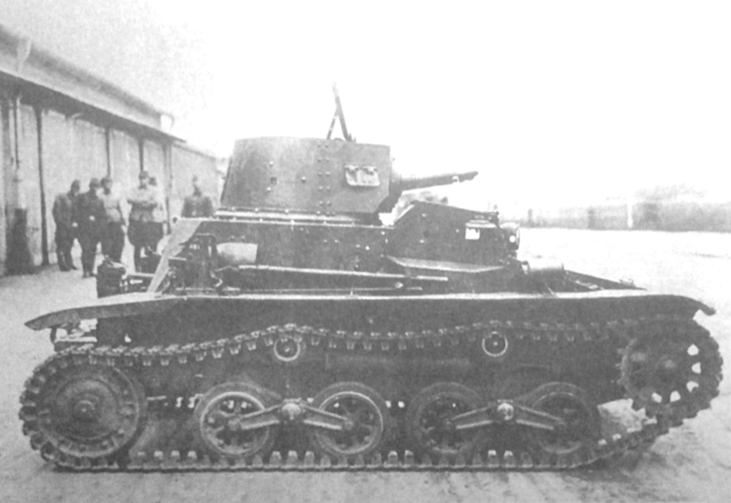 Imperial Japanese Army Type 94 tankette late model.